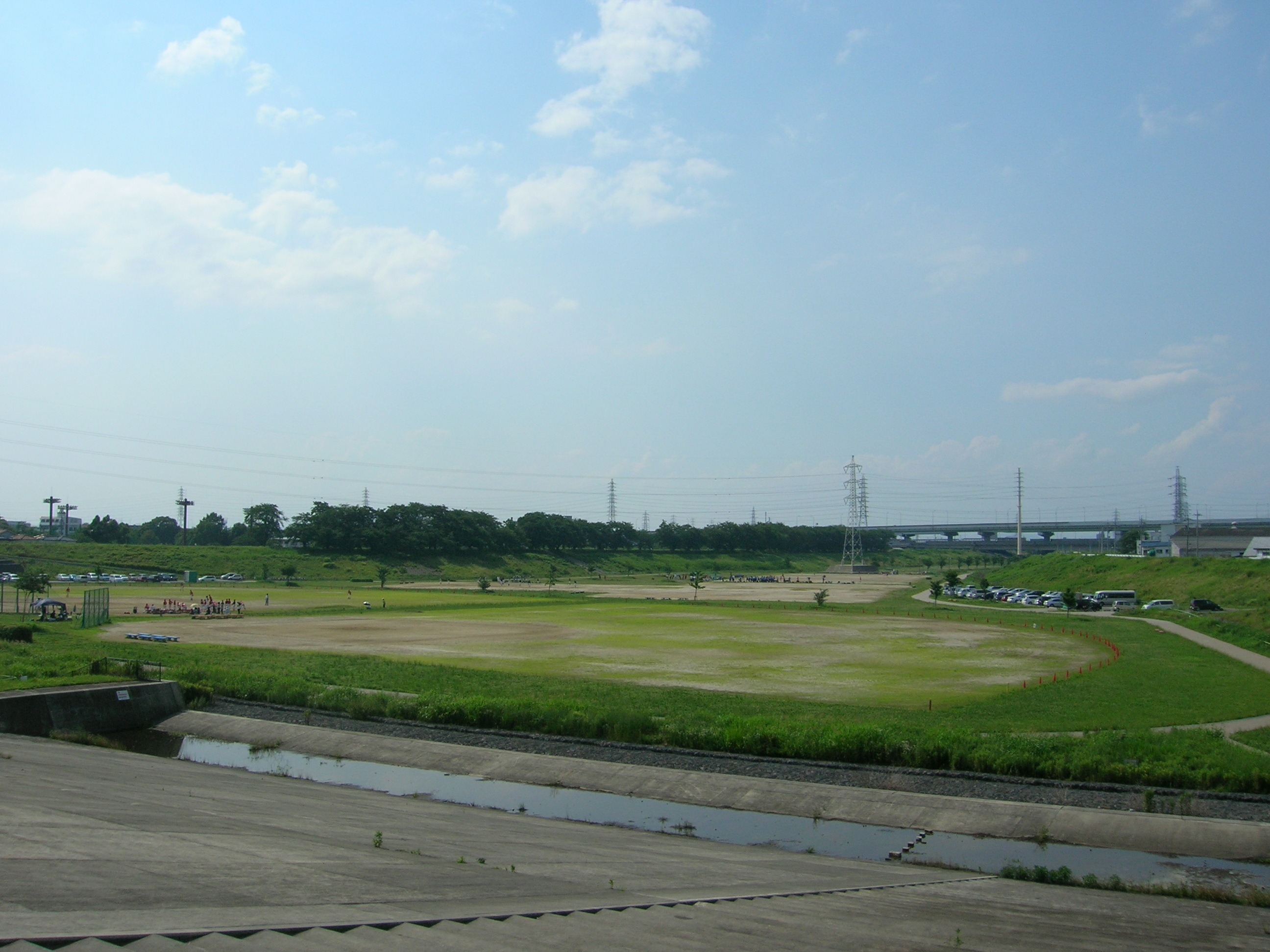 Araizeki ryokuchi (Araizeki green). Loc: Nagoya city, Aichi Prefecture, Japan. 洗堰緑地 撮影場所 愛知県名古屋市西区